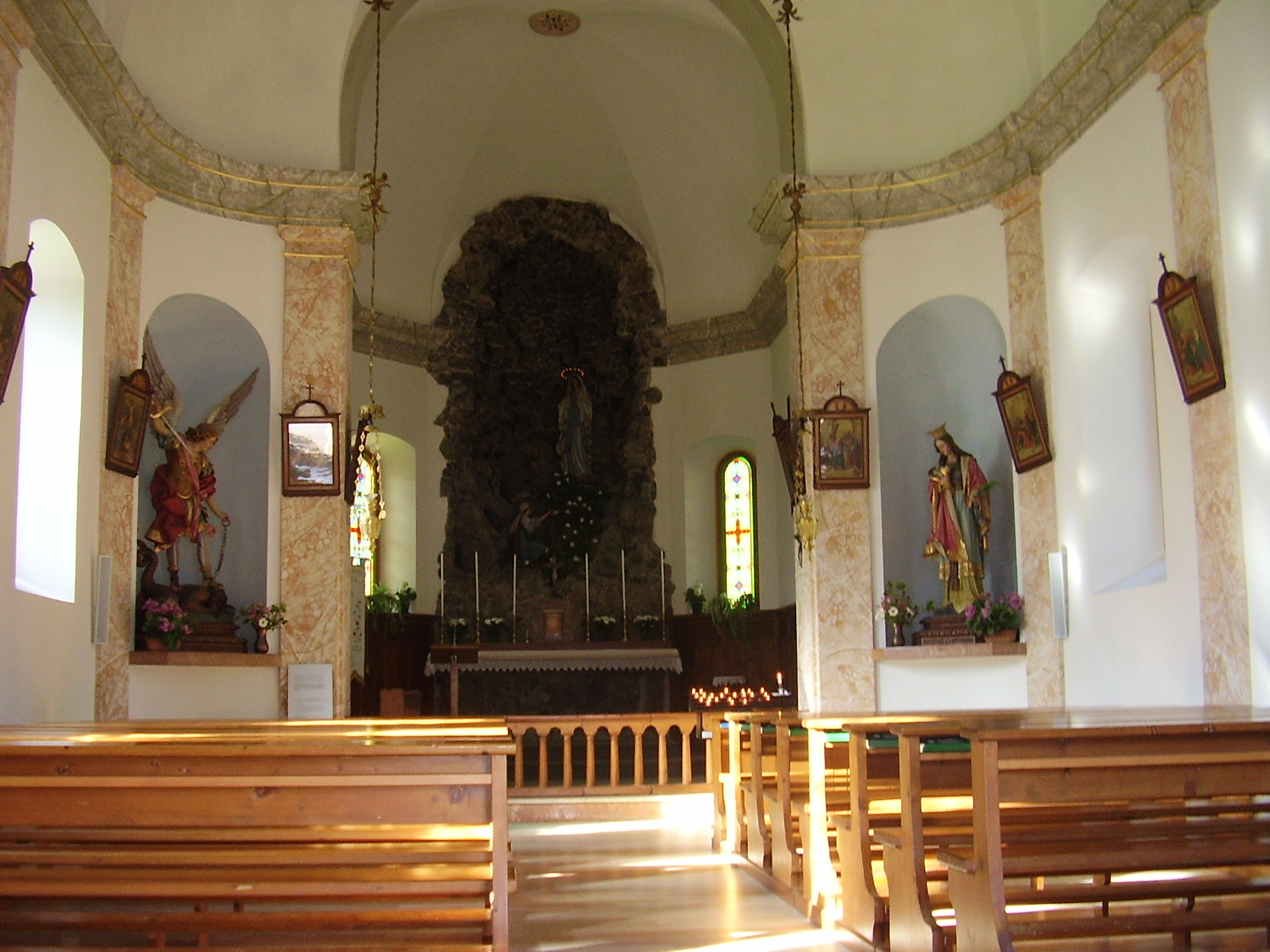 Inner wiew of the Blessed Virgin of Lourdes Chapel, in the frazione of Grava di Sotto, in Cortina d'Ampezzo, Italy.